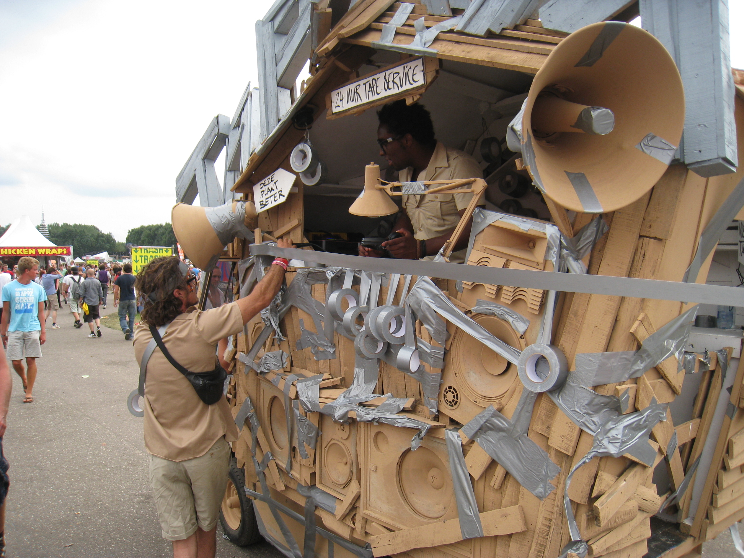 Street performers on Lowlands Festival 2010